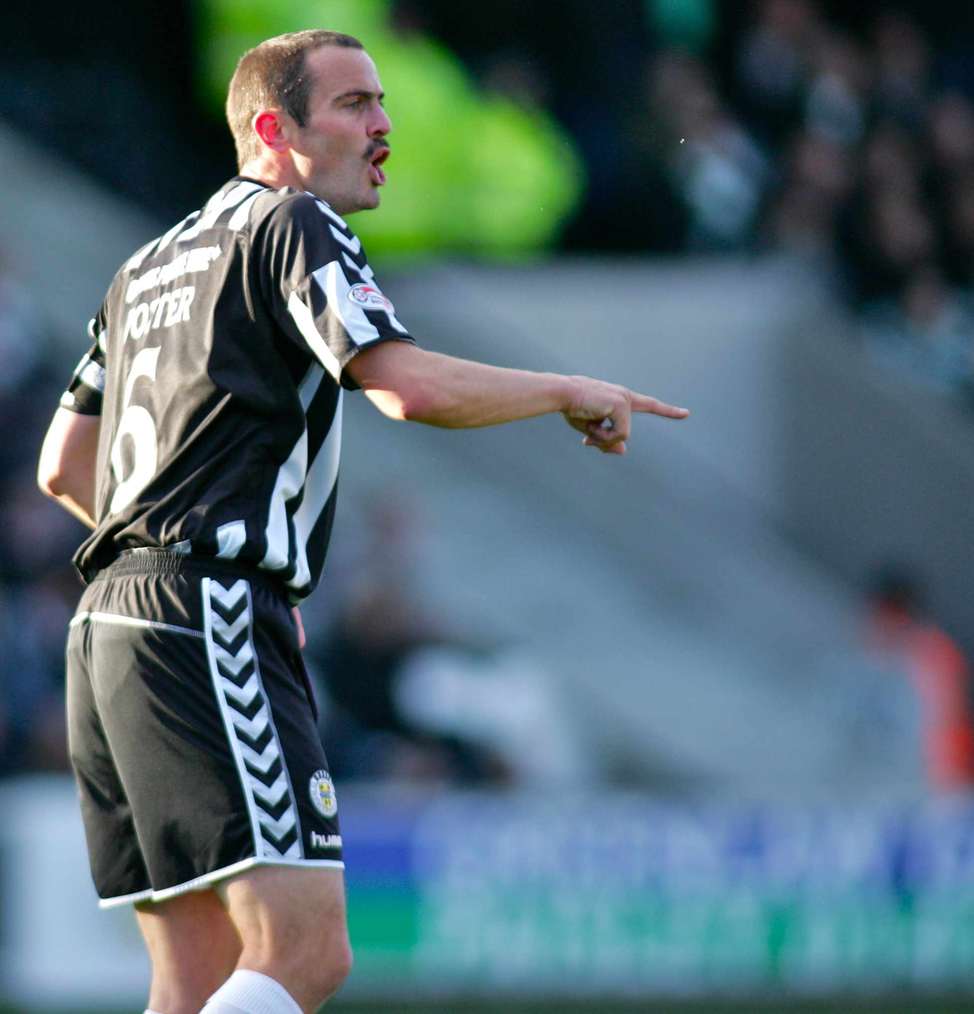 John Potter playing for St. Mirren